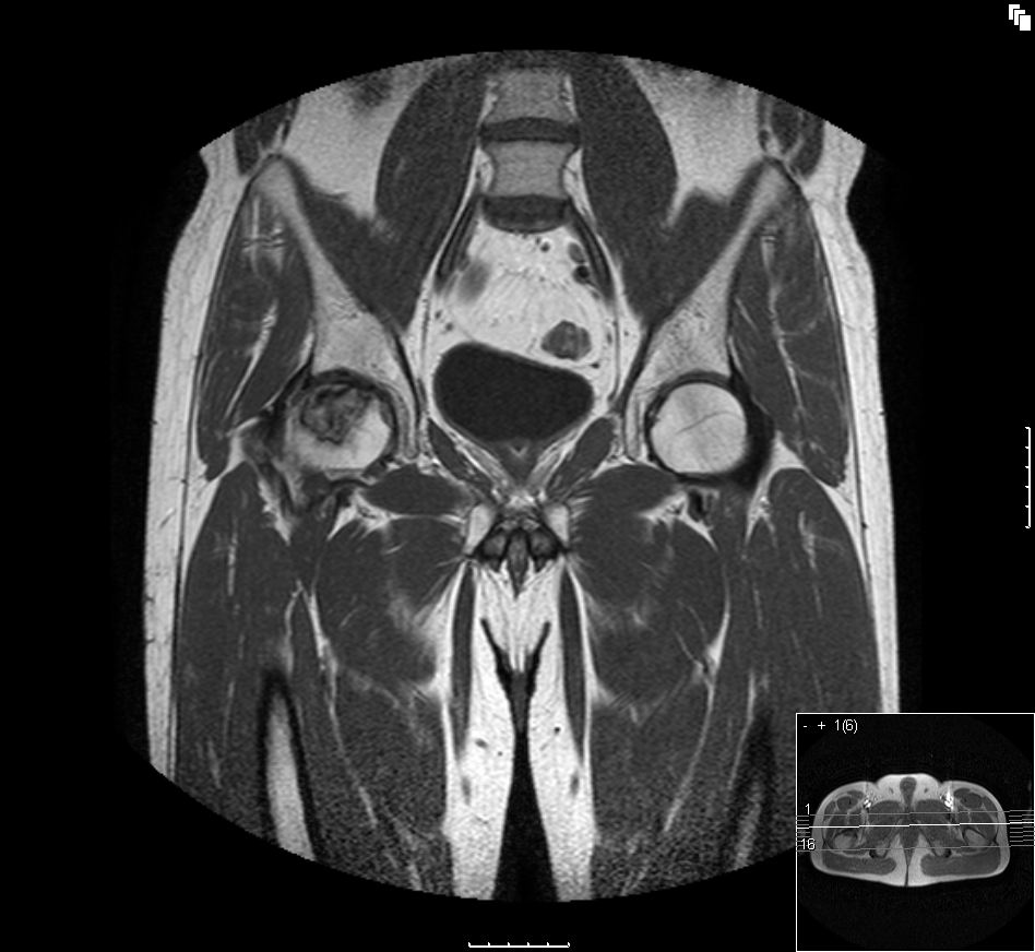 Coronary T1-weighted magnetic resonance imaging (MRI) of a dog showing both femoral heads, right side (left in the picture) with femoral head necrosis. Apart from the body proportions, it looks the same in humans.